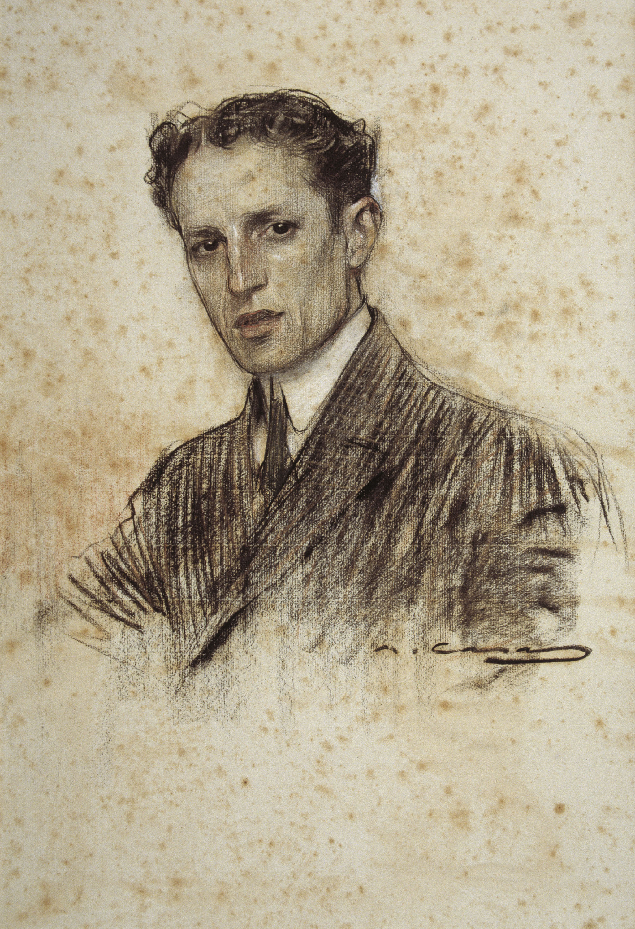 Portrait by Ramon Casas conserved at MNAC in Barcelona. Imagen 079